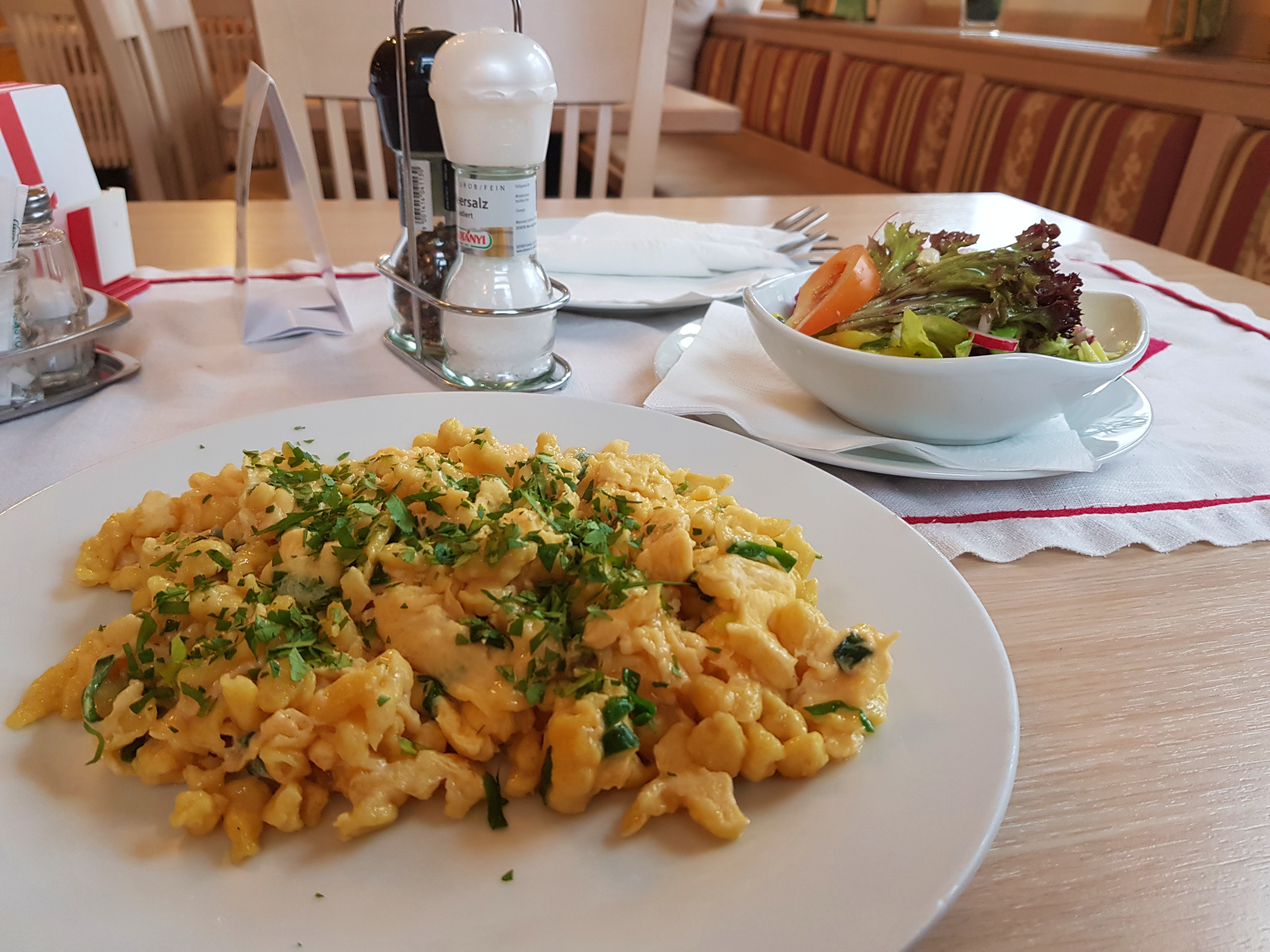 Eiernockerl